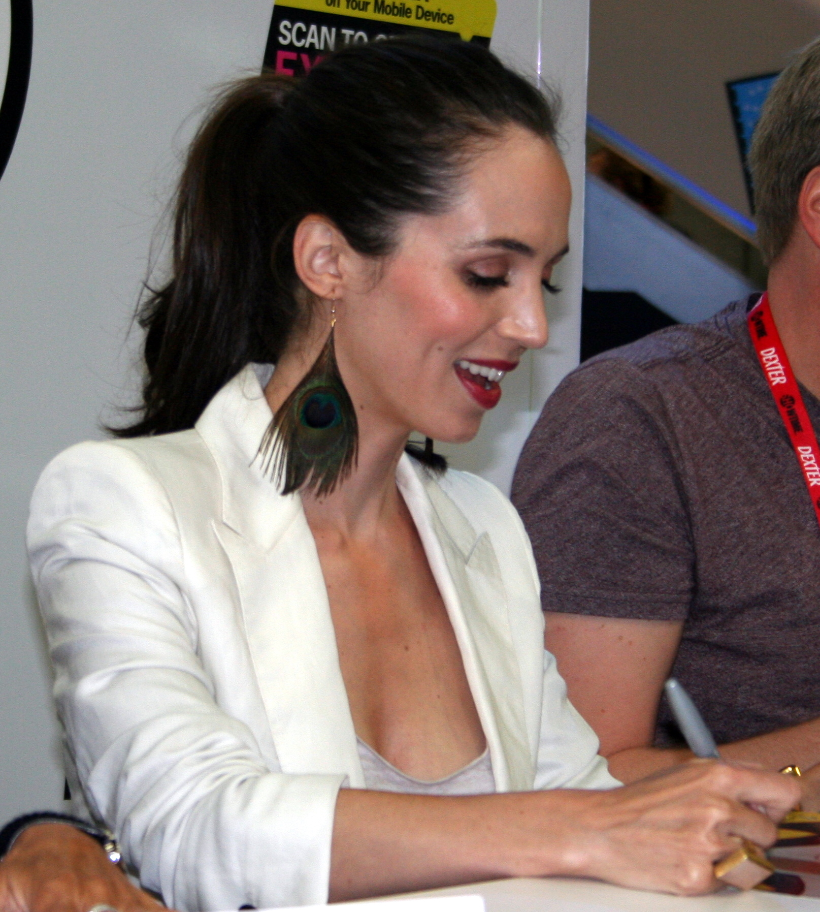 Eliza Dushku in July 2011.